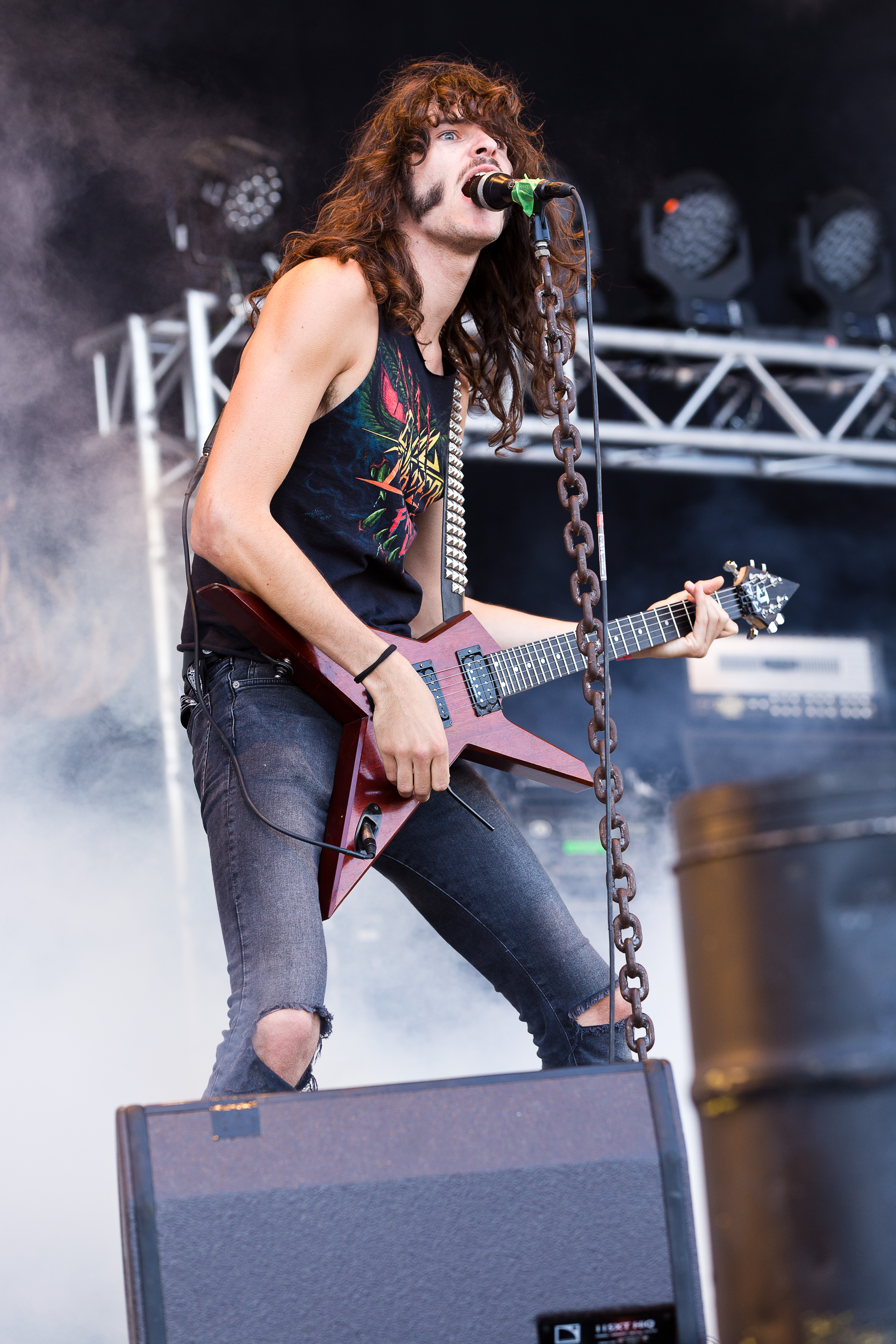 The Belgian speed metal band Evil Invaders at the Party.San Open Air 2015 in Obermehler-Schlotheim/Germany.